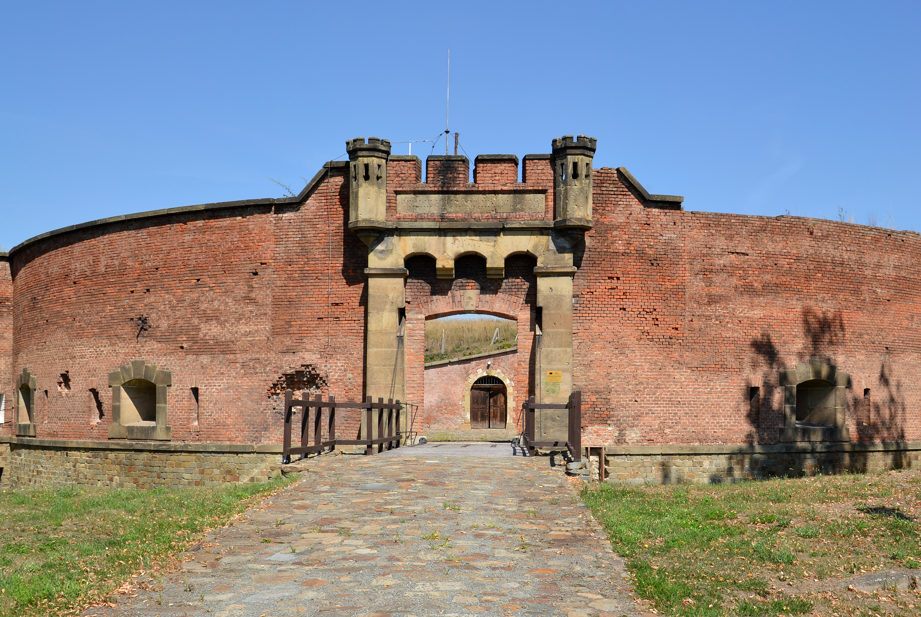 Fort XXII Černovír in Olomouc (Olmütz), Moravia